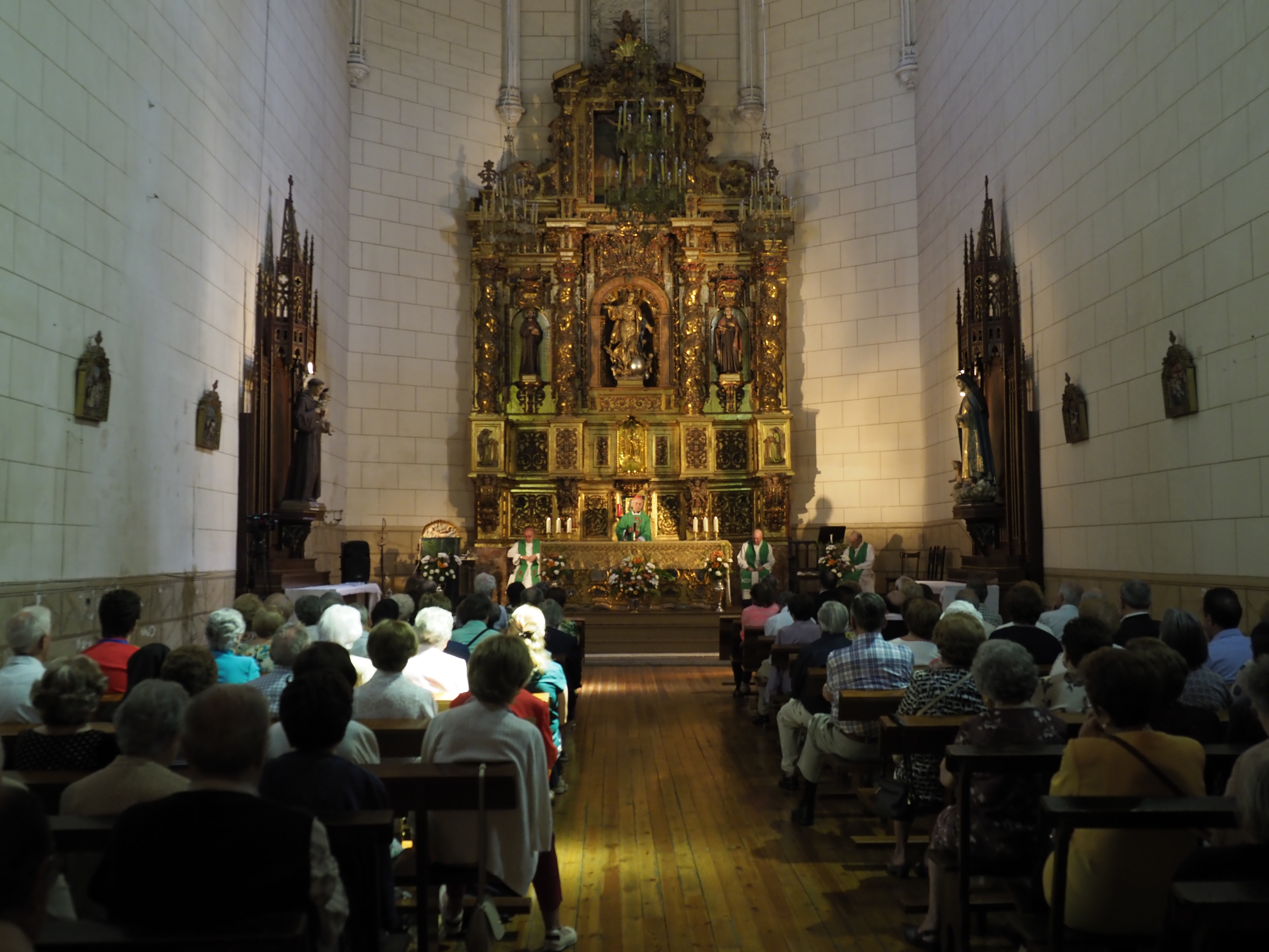 Inside view of the Convent of the Purísima Concepción (Valladolid, Spain)